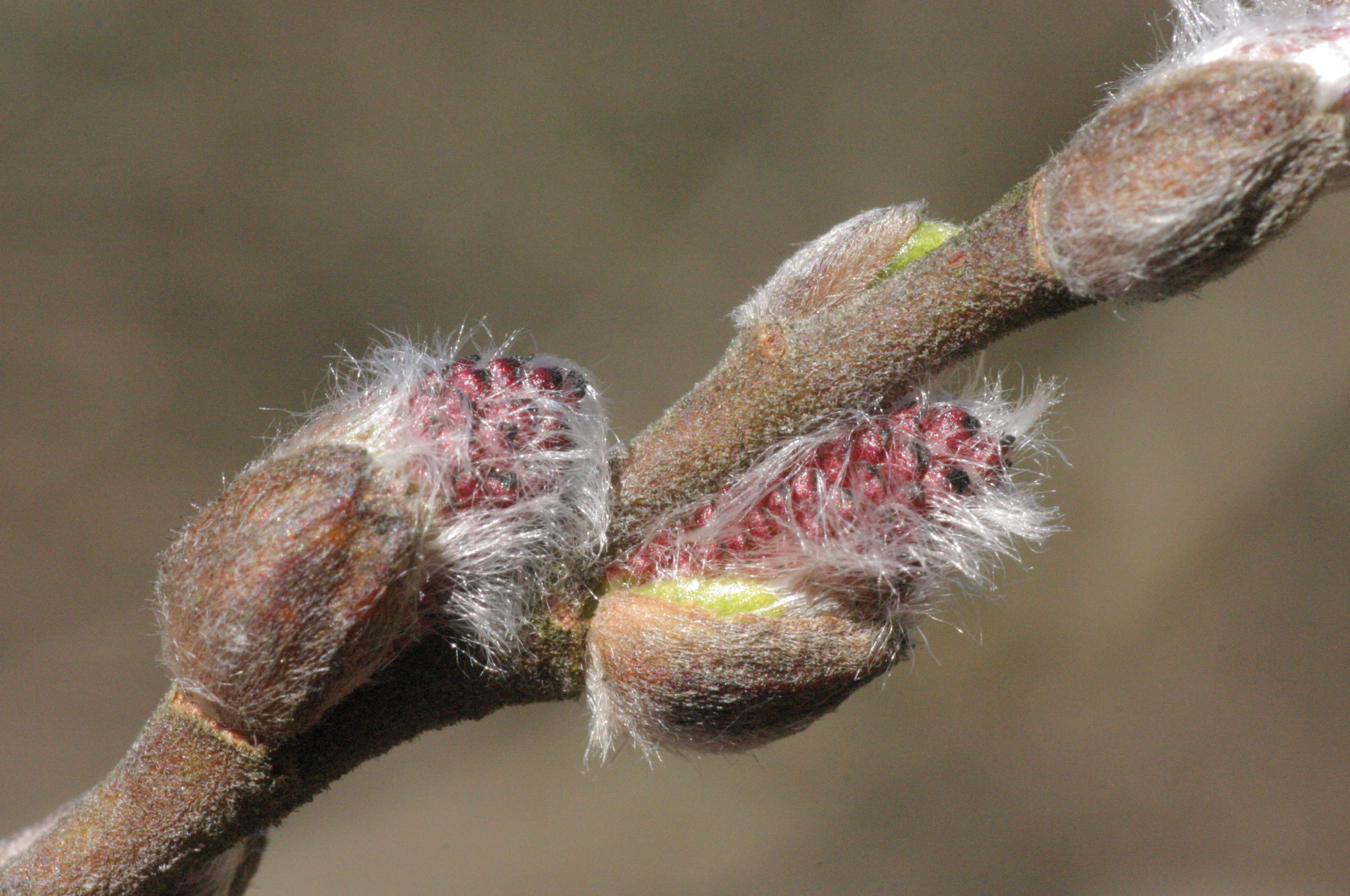 Salix myrsinifolia